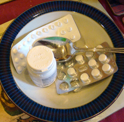 Breakfast of pills